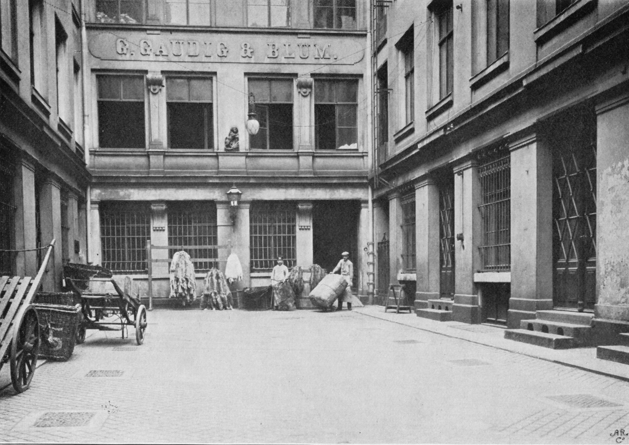 G. Gaudig & Blum, Leipzig. In: George R. Cripps: About Furs.